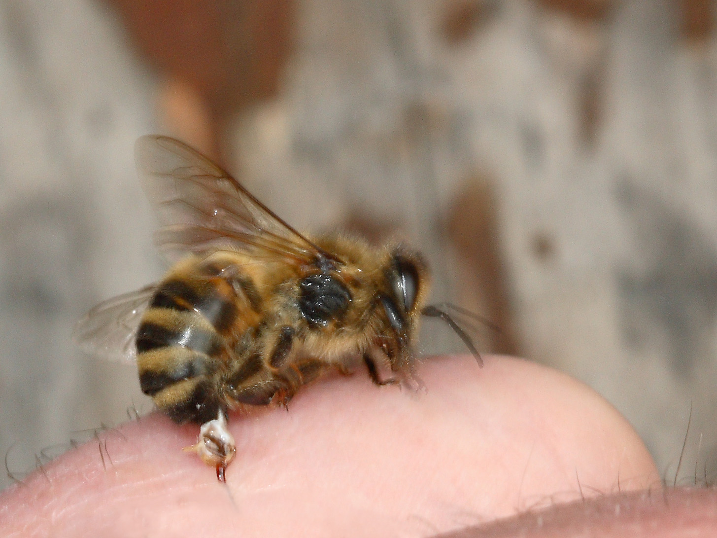 Sting of a honey bee. The barbed stinger is torn off and remains in the skin. Muscles at the stinger continue to pump venom into the wound.